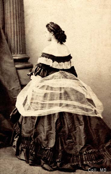 Photograph of Esther Lachmann alias Thérèse Lachmann, later marquise de Païva, generally known as La Paîva. Wed Guido Henckel von Donnersmark in 1871.